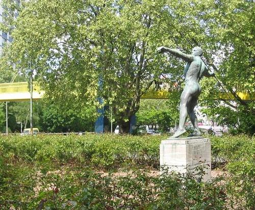 Volkspark Wilmersdorf in Berlin; statue by Möbius